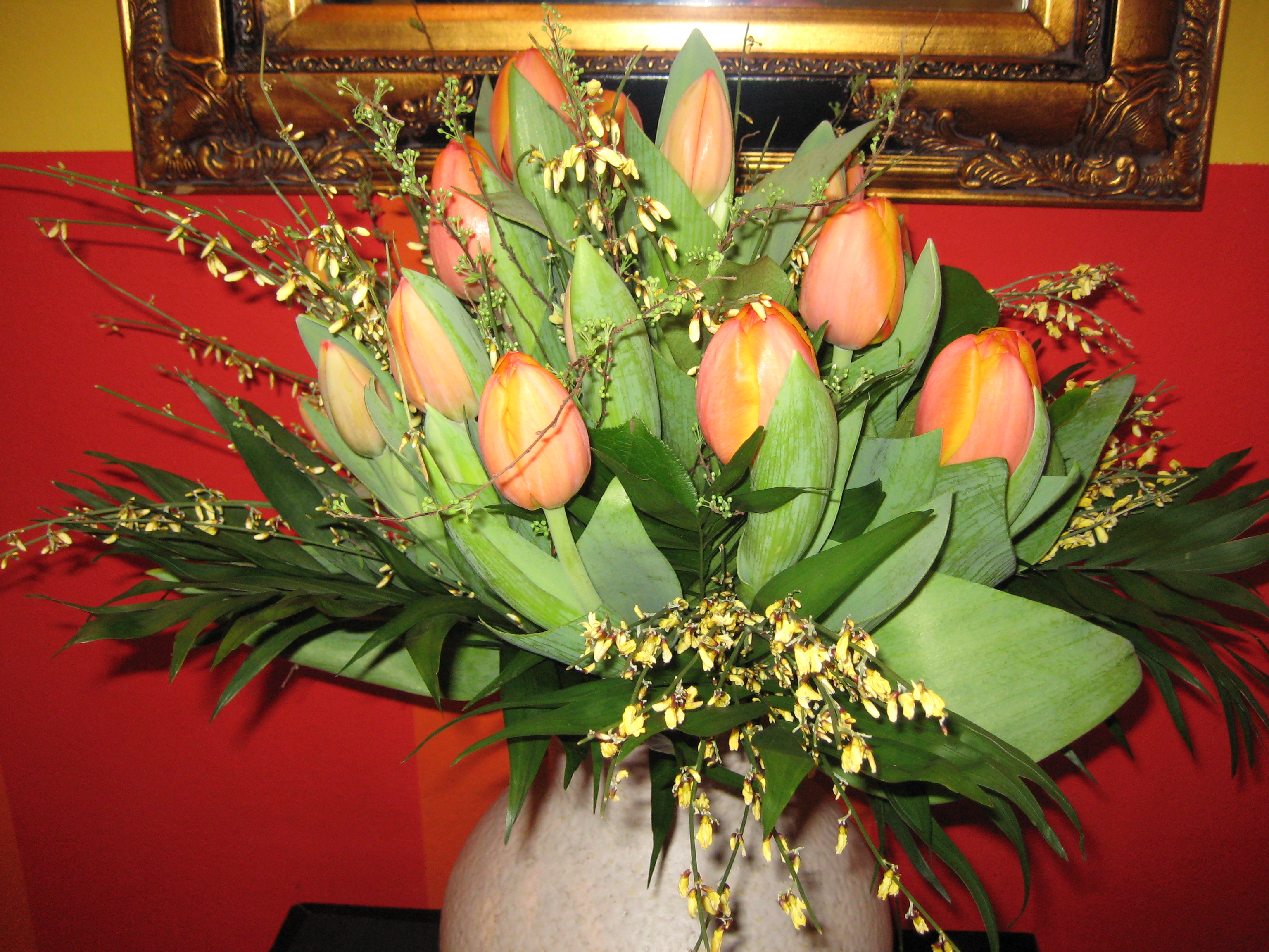 Tulips